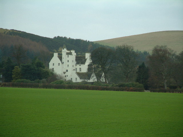 Balmanno Castle. Balmanno Castle dates from around 1570-80. It was restored between 1916-21 by Sir Robert Lorimer, who was responsible for the present layout of the grounds.